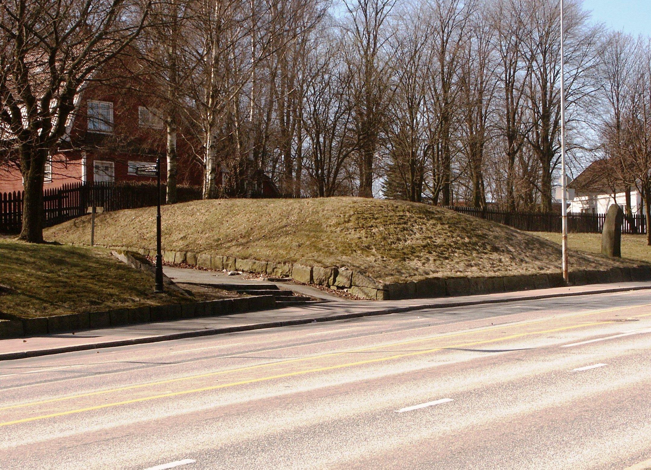 St. Olavs voll